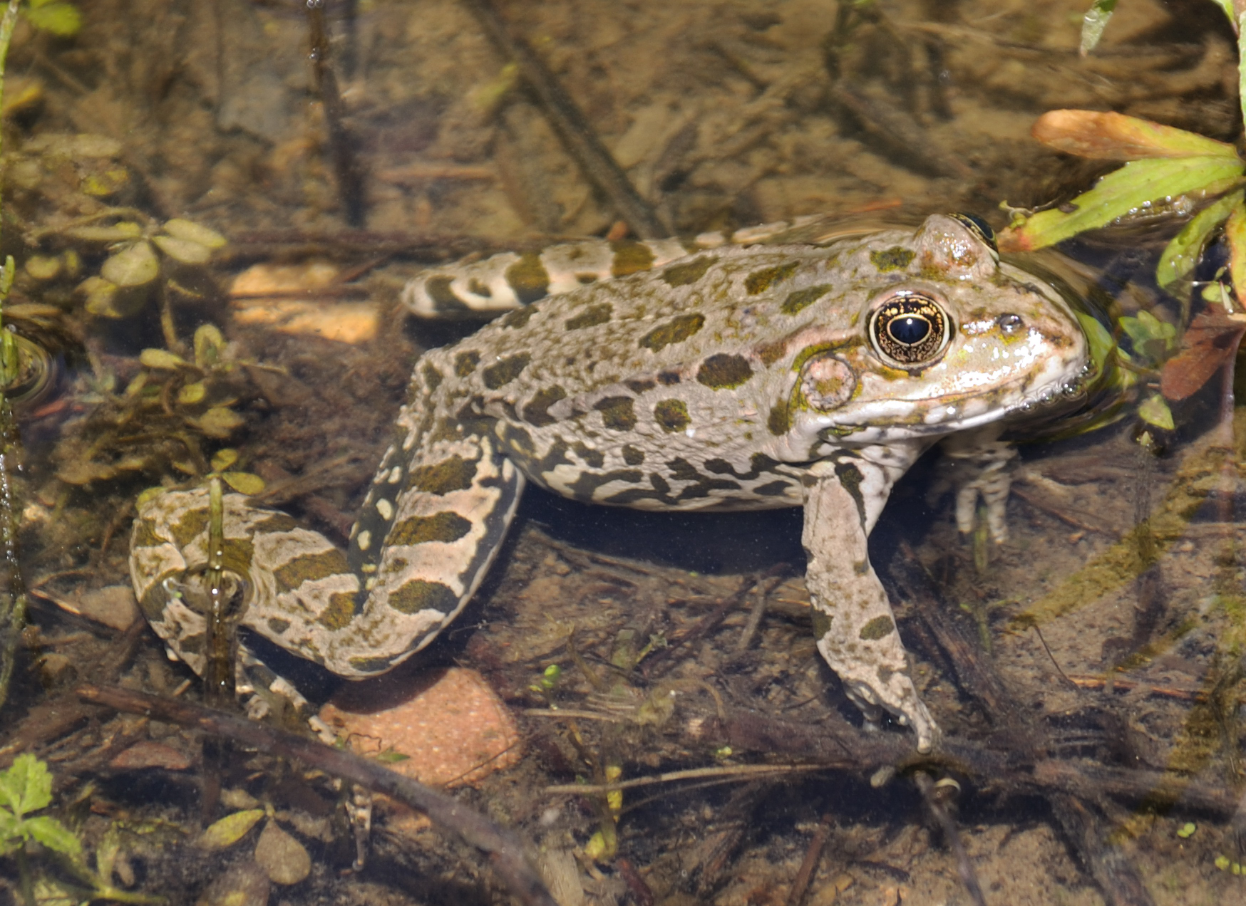 Marsh Frog (Pelophylax ridibundus) near the old airstrip, Frankfurt, Germany.